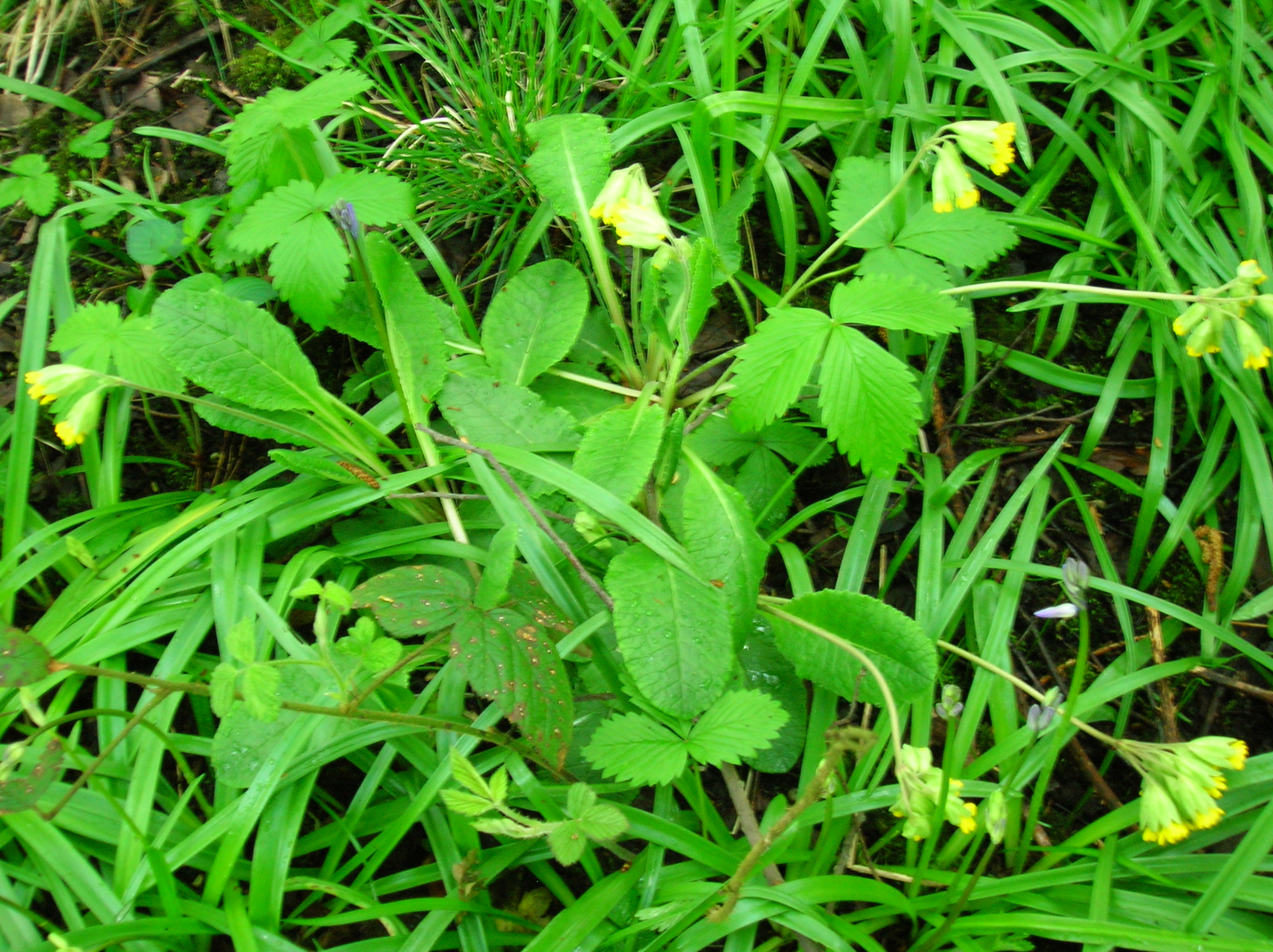 Cowslips (Primula veris) at Eglinton, North Ayrshire, Scotland.